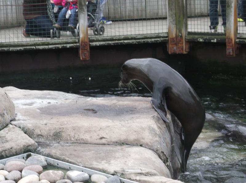 South American fur seal (Arctocephalus australis) at the Bristol Zoological Gardens, England.